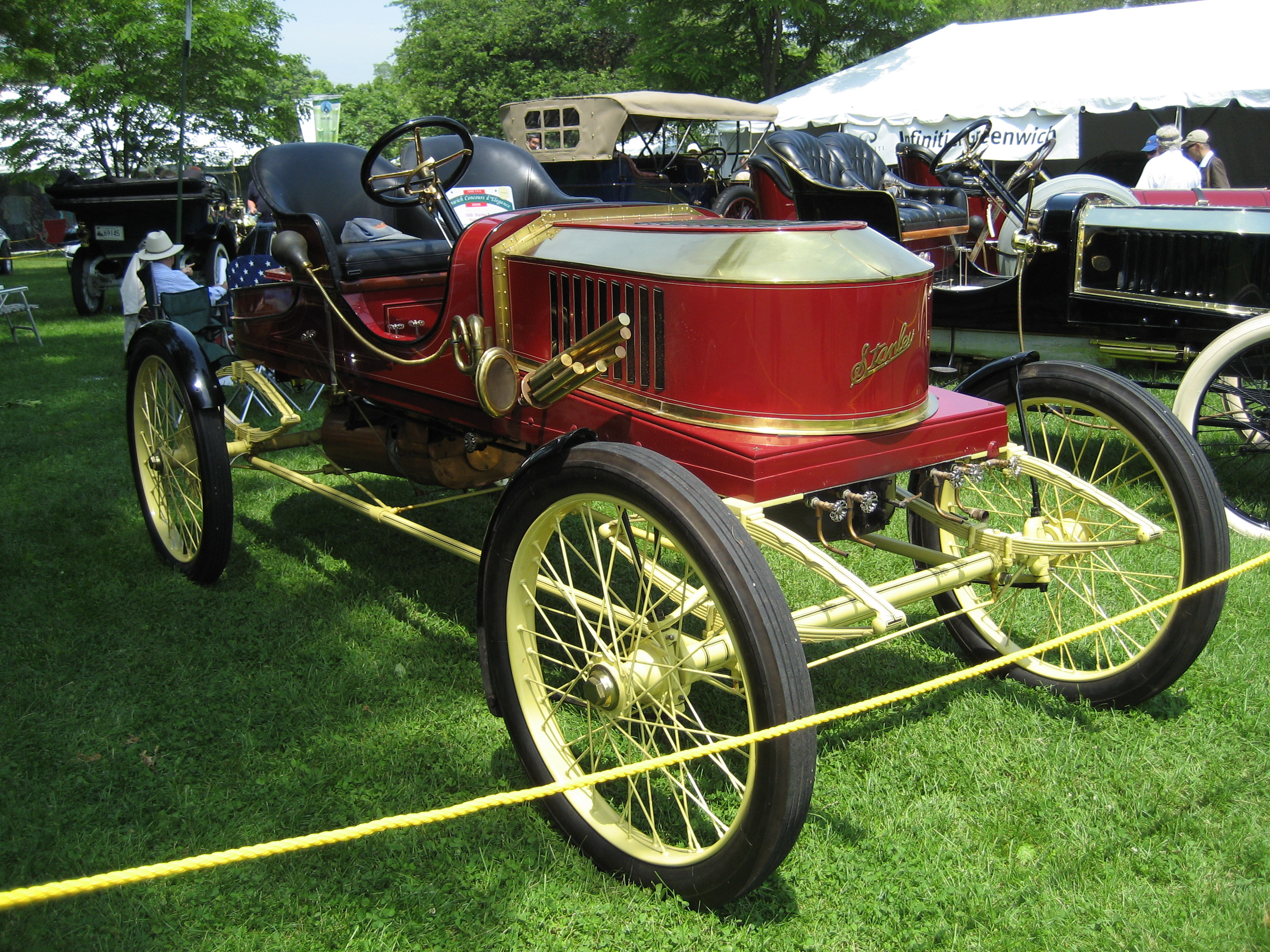 1908 Stanley K Raceabout photographed at the 2008 Greenwich Concours d'Elegance in Greenwich, Connecticut.